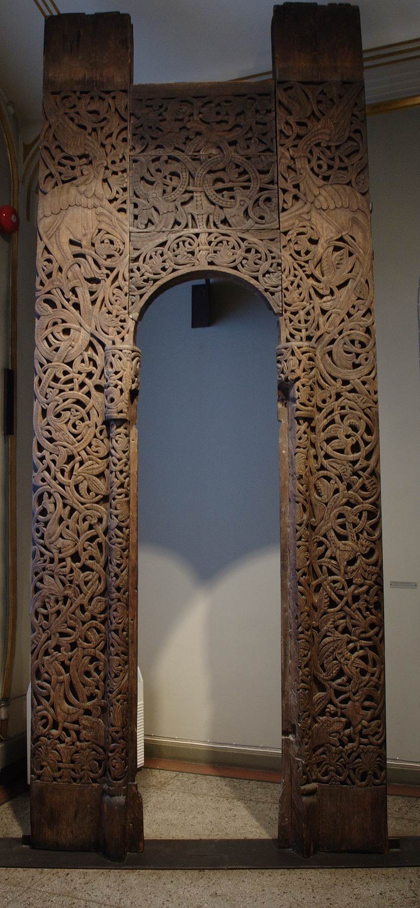 The portal from Sauland stave church